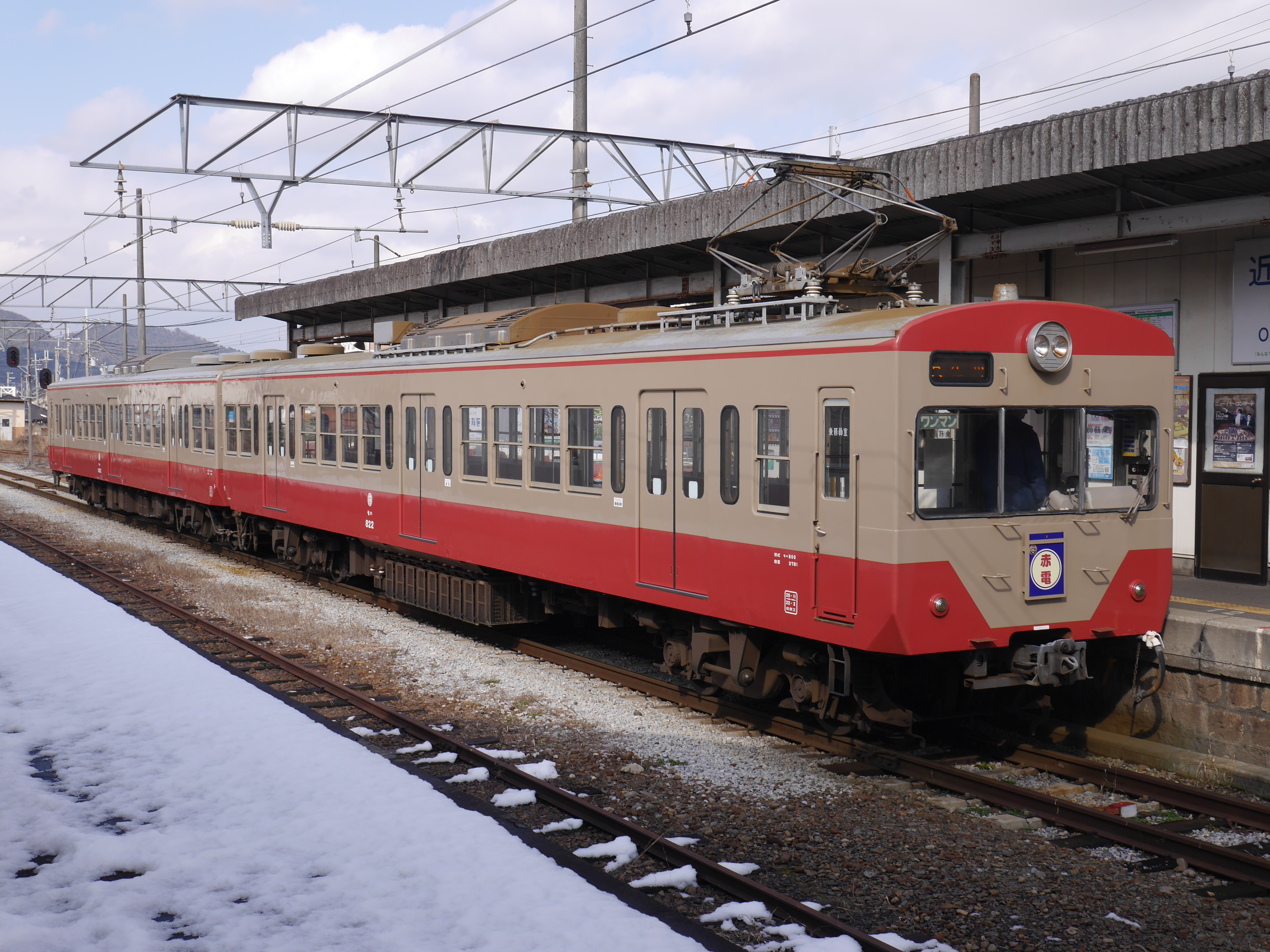 Ohmi railway 822 "Akaden" at Kibukawa station